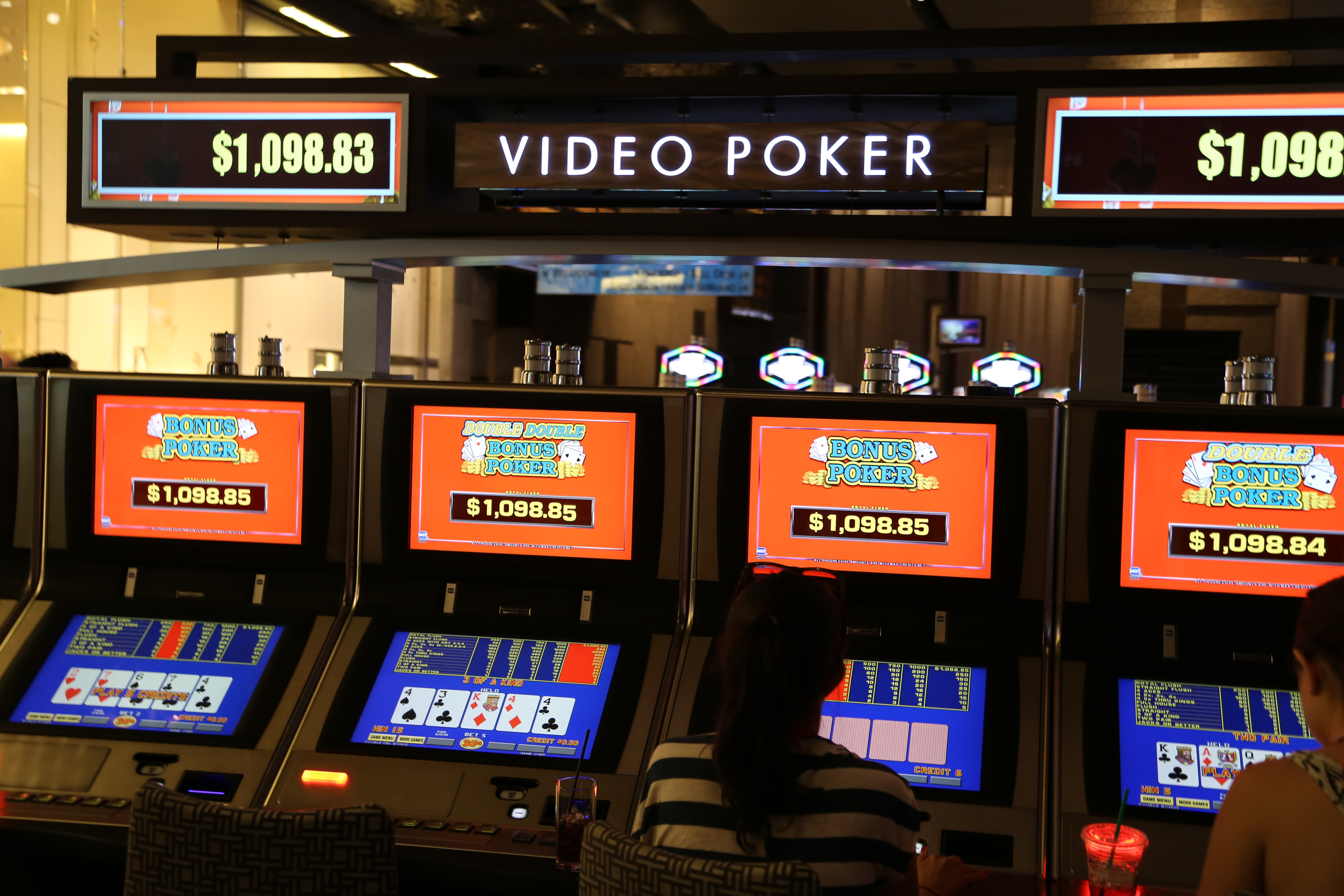 Row of video poker machines taken at New Orleans: Harrah's Casino